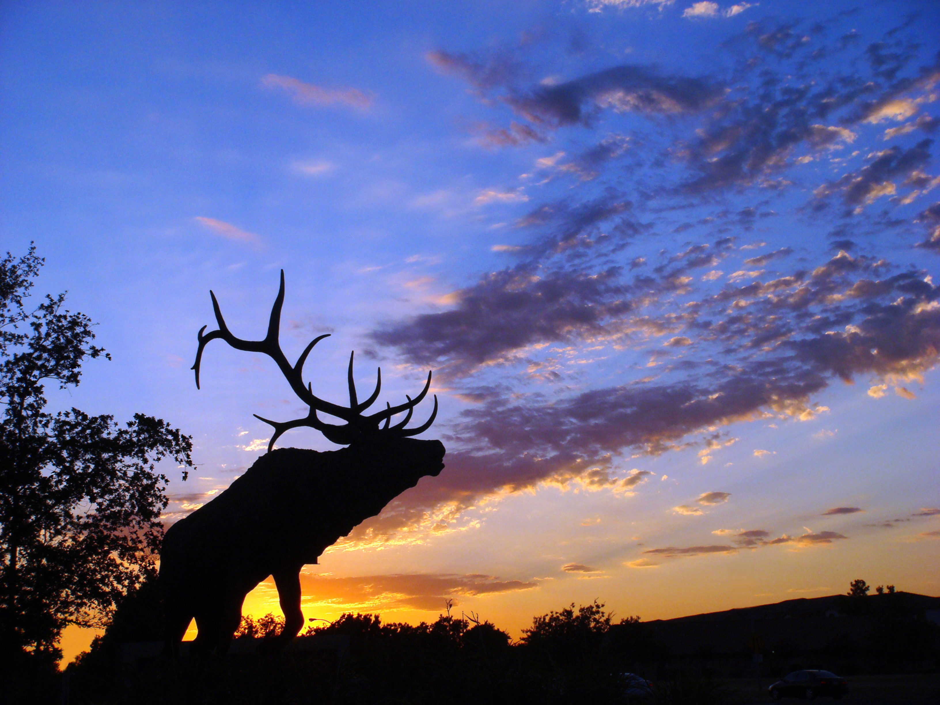 Sunset on Laguna Blvd, Elk Grove Ca. (This image has been retouched to remove some unwanted elements and photoshopped to improve color and contrast)